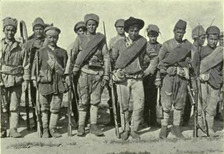 Ragged soldiers of Kolchak's army.